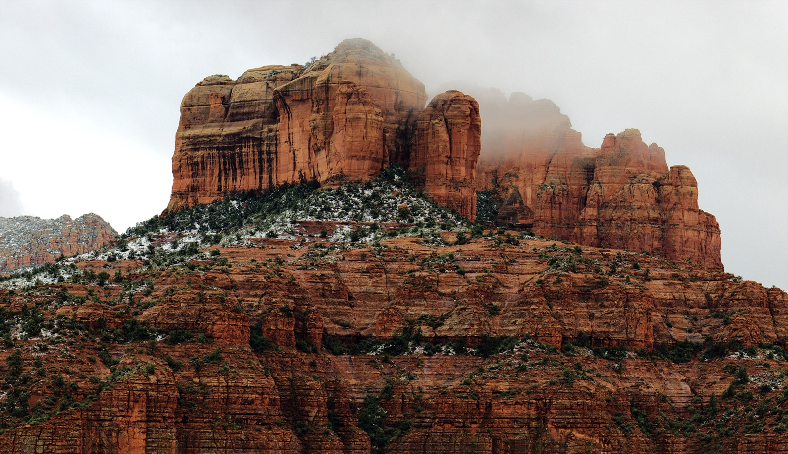 Cathedral Rock in a winter storm, 2011. This is the rightmost section of the panorama, showing Cathedral Rock.